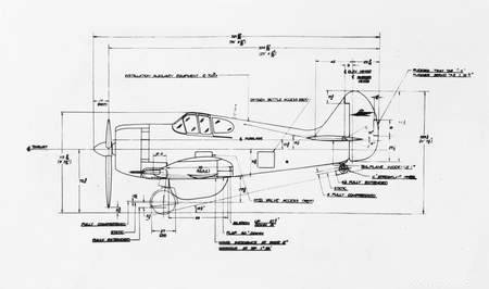 Draftman's line drawing, port side, with measurements, of Commonwealth Aircraft Corporation's Boomerang single seater monoplane.